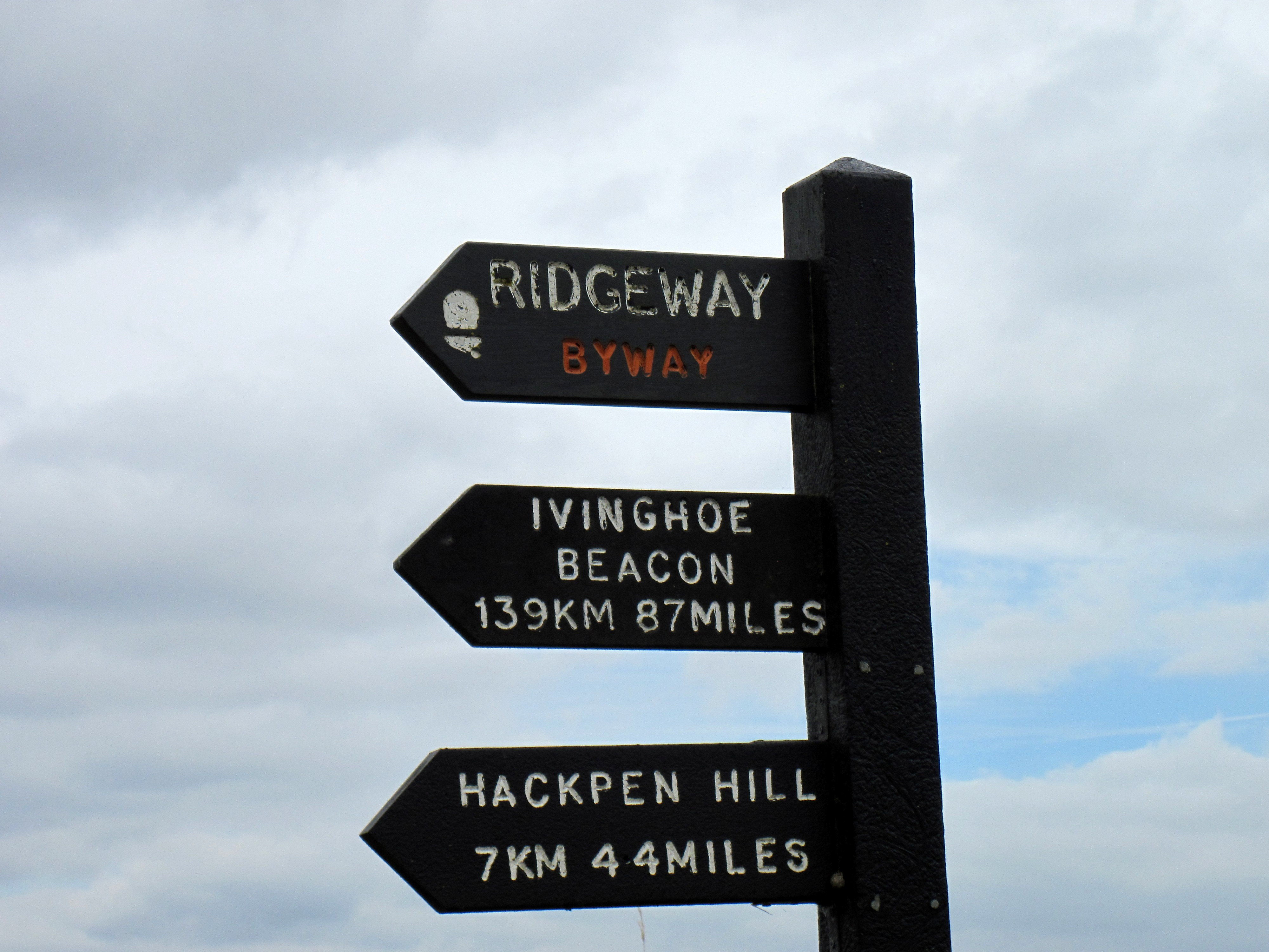 Plaswood signpost at Overton Hill Wiltshire. The start point of the Ridgeway National Trail.